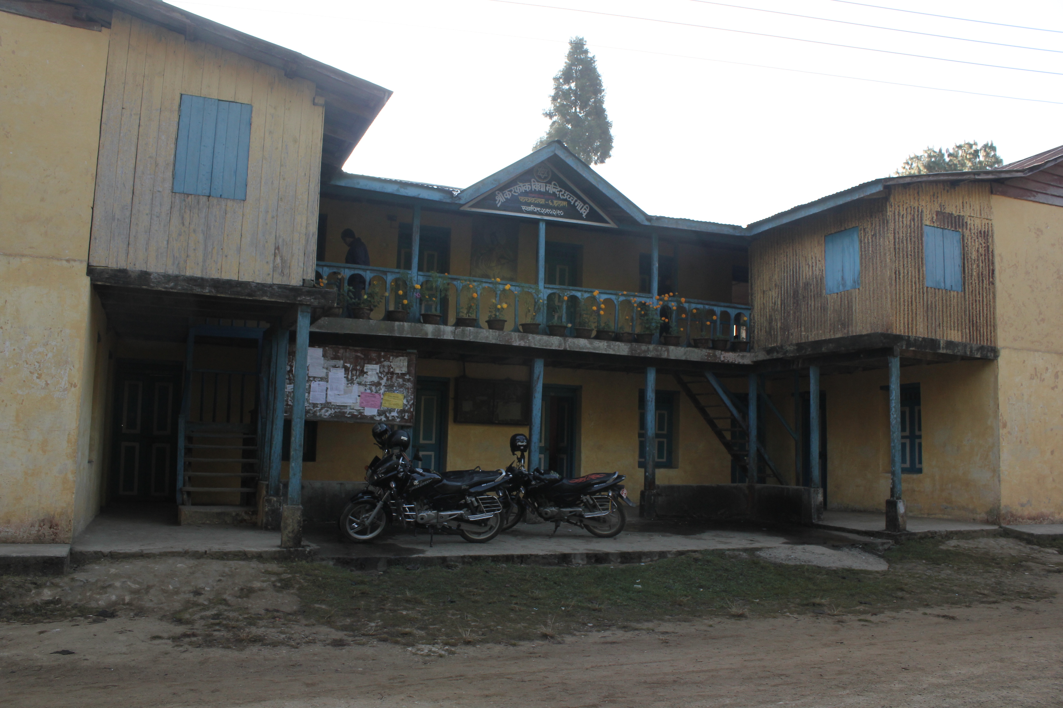 Karfok High School, Old building